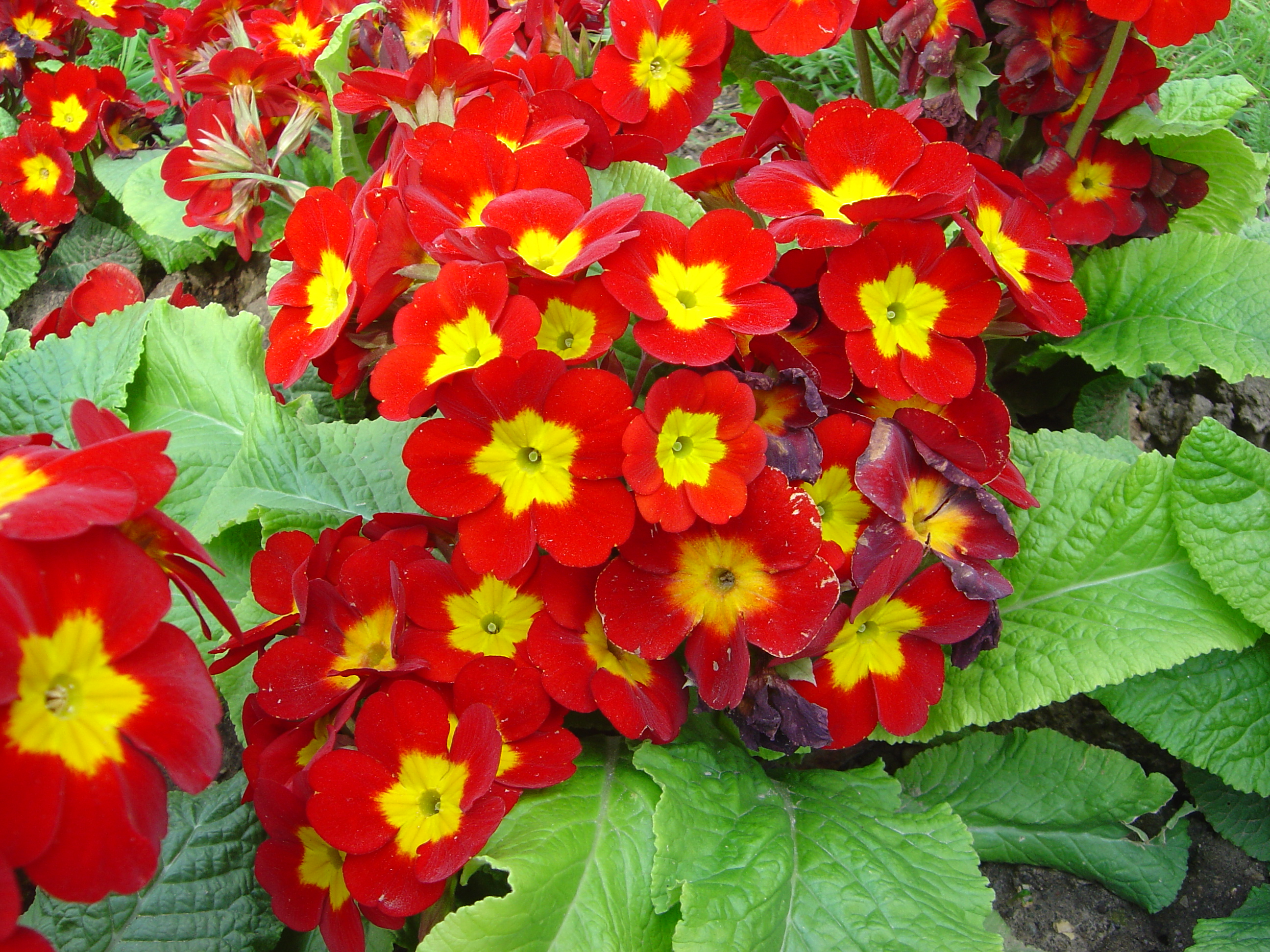 Primula eliator 'Crescendo' rouge En: Photograph taken at the Jardin des Plantes in Paris, France Fr: Photographie prise au Jardin des Plantes à Paris, France